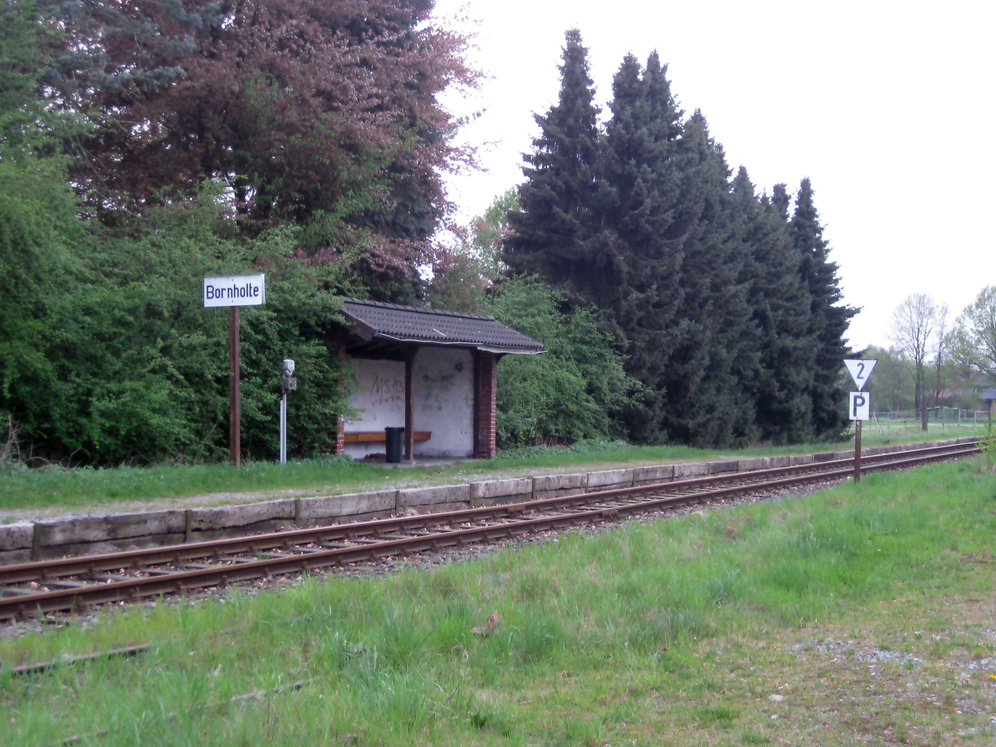 Train station in Verl-Bornholte